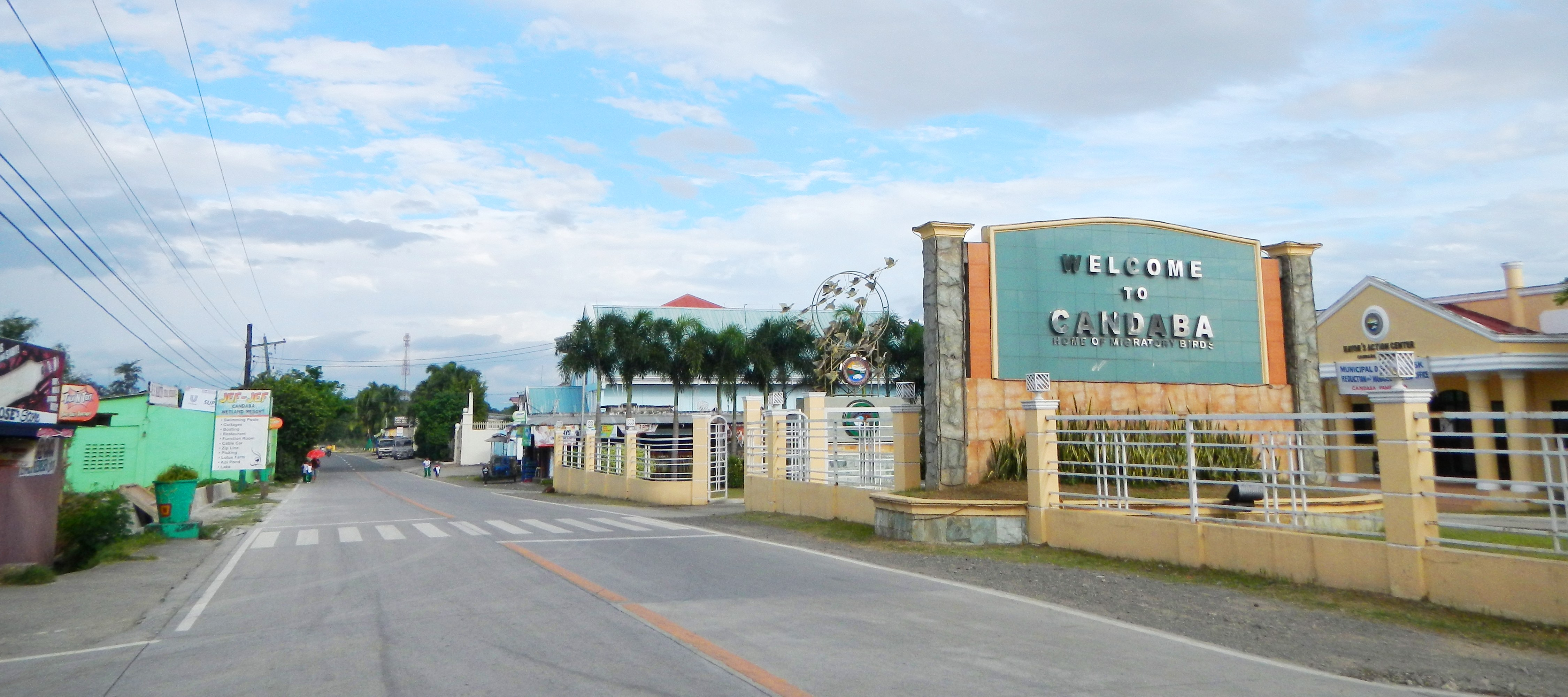 Candaba, Pampanga [1]